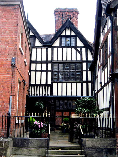 DRAPERS HALL AND ATTACHED RAISED PAVEMENT AND RAILINGS Wikidata has entry Q17540840 with data related to this building.